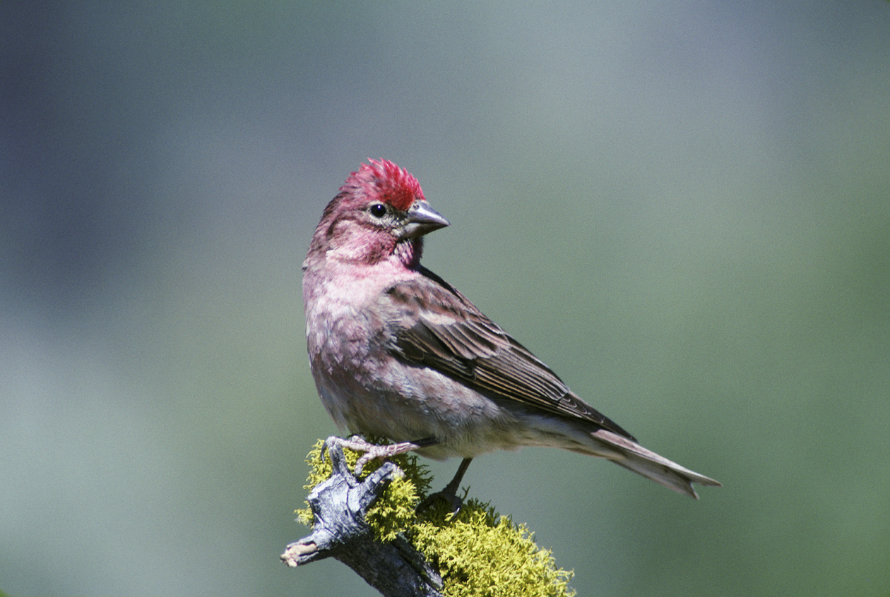 Cassin's Finch (Carpodacus cassinii), photographed in Deschutes National Forest